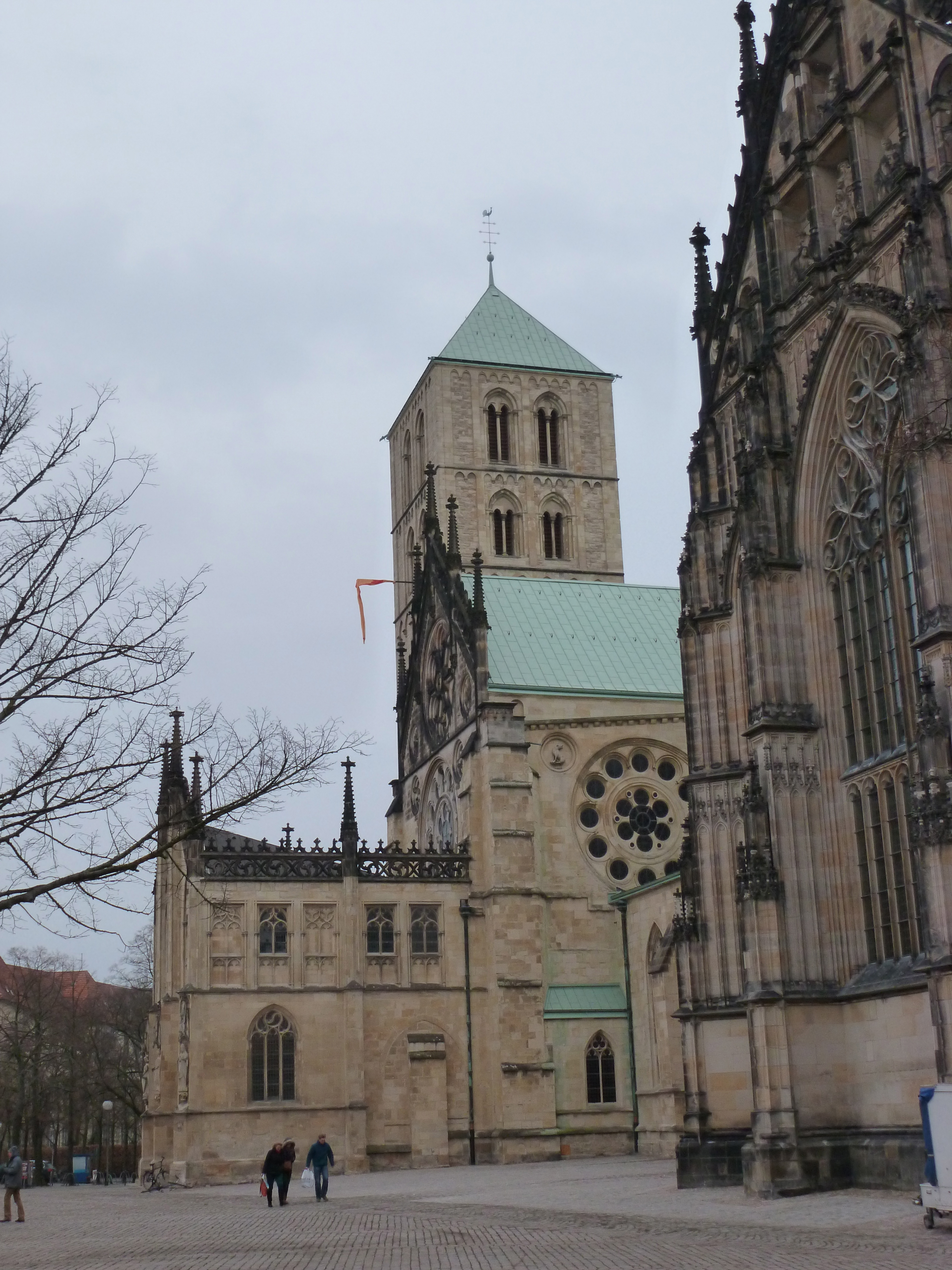 Detailansicht Paulusdom von außen